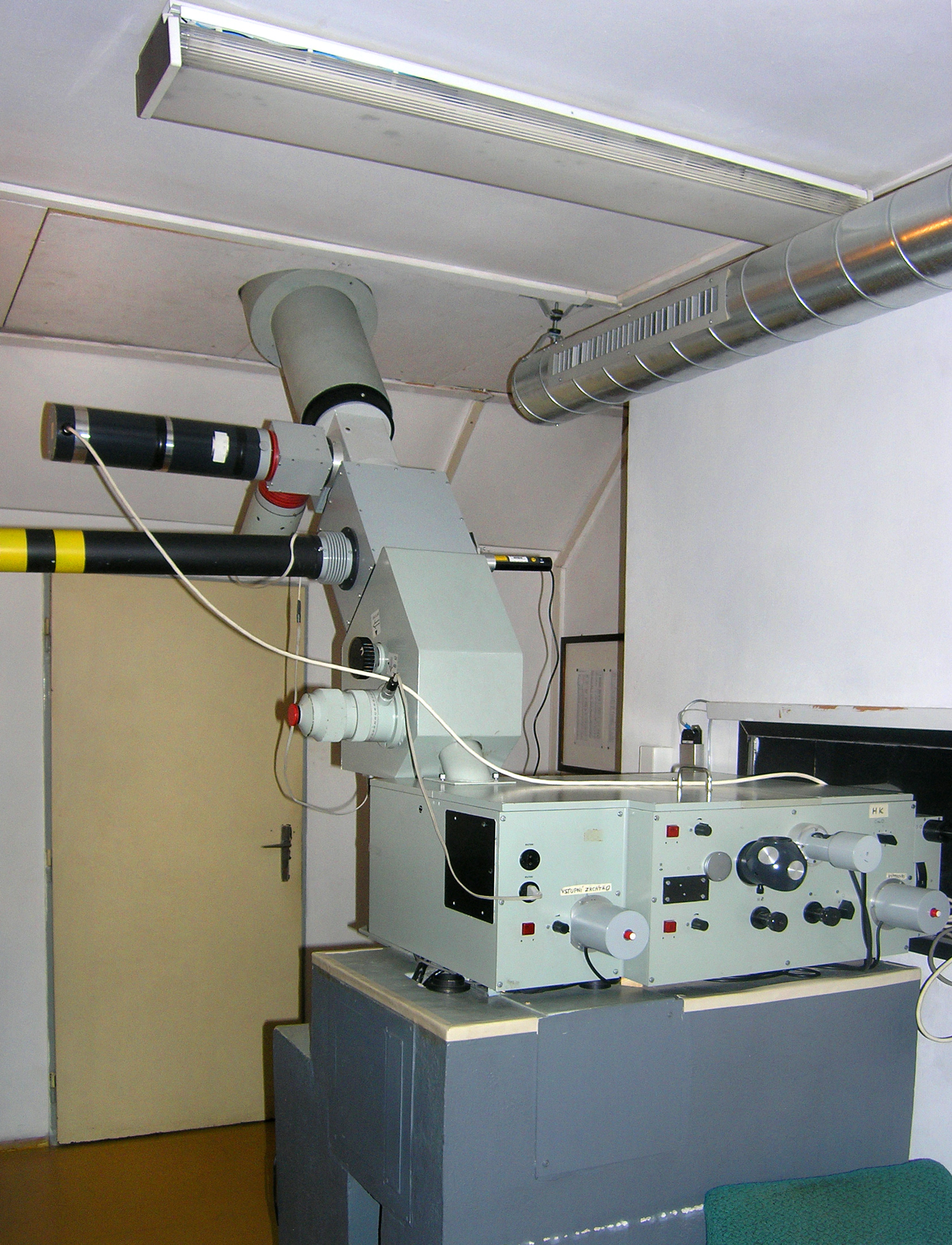 Echelle spectrograph - part of 2-m reflector from the Czech Astronomical Institute in Ondřejov